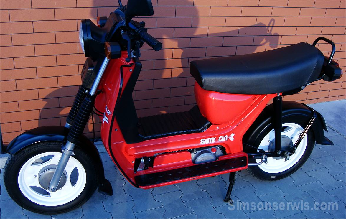 Simson sr50